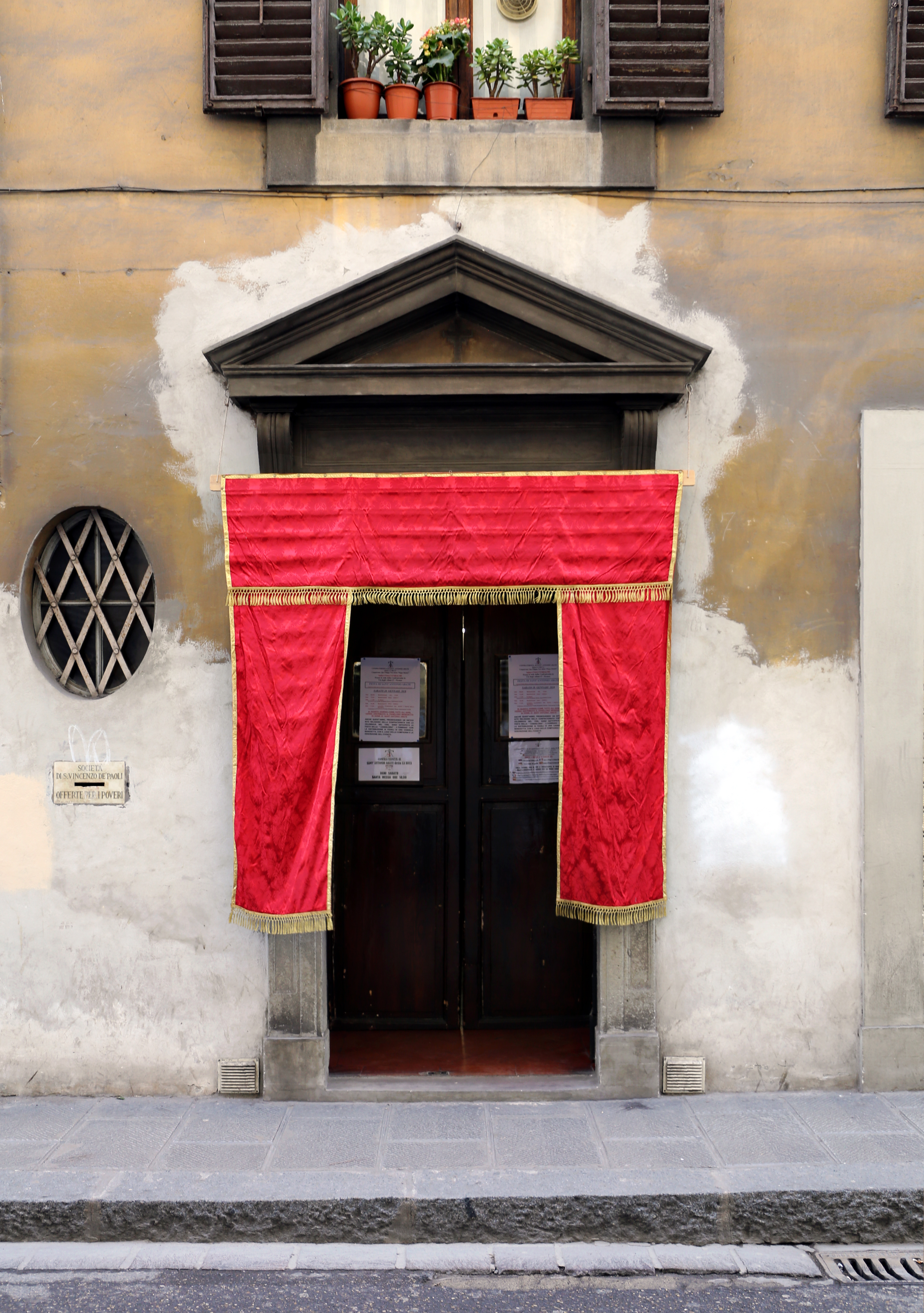 Sant'Antonio Abate (Florence)